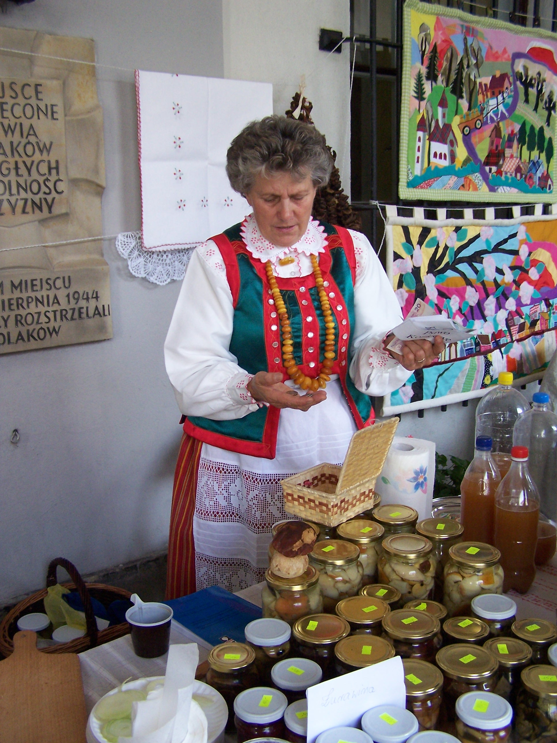 Czesława Kaczyńska, folk artist from Dylewo, Poland: selling products from her farm